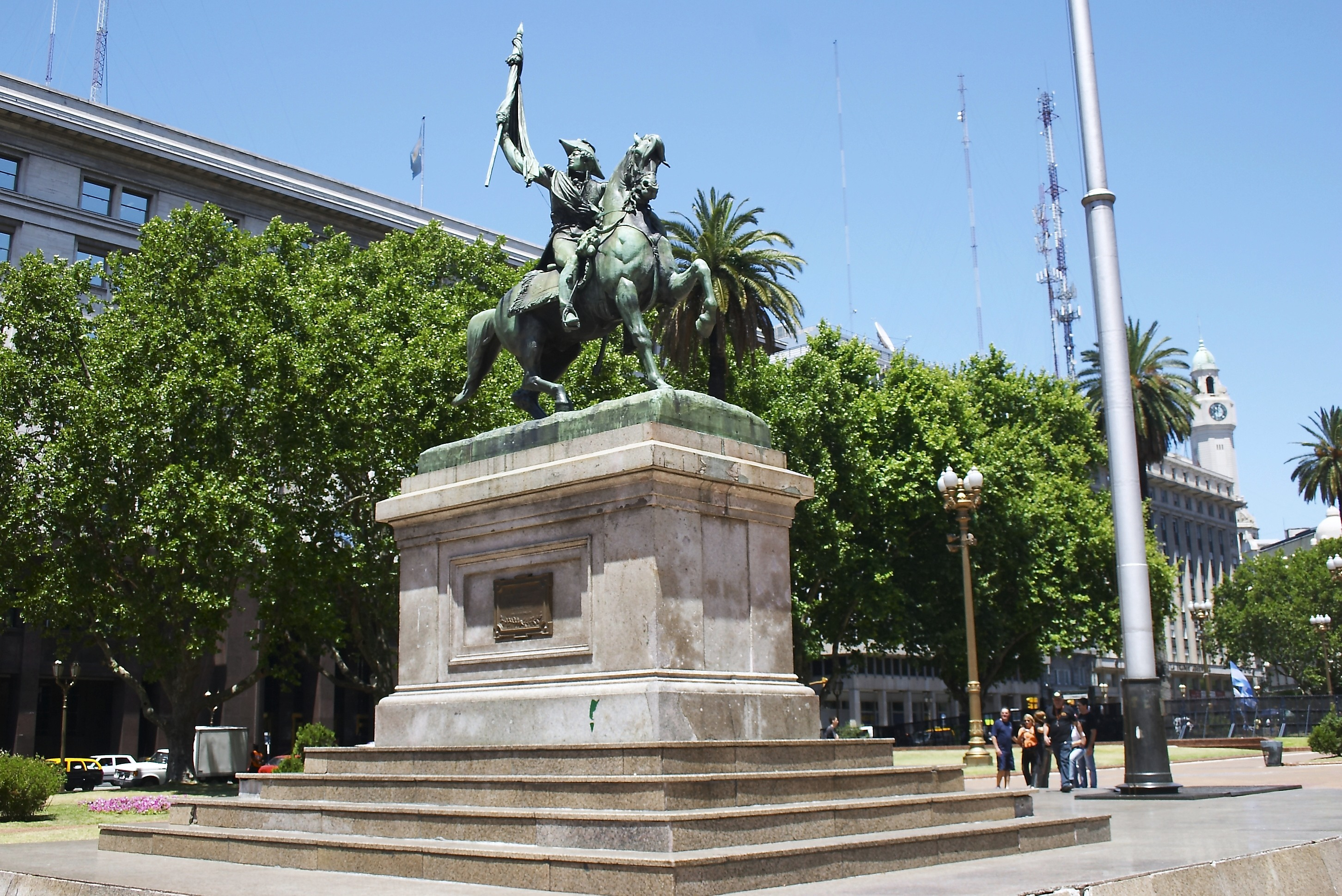 Statue of general Manuel Belgrano, located at Plaza de Mayo, Buenos Aires.